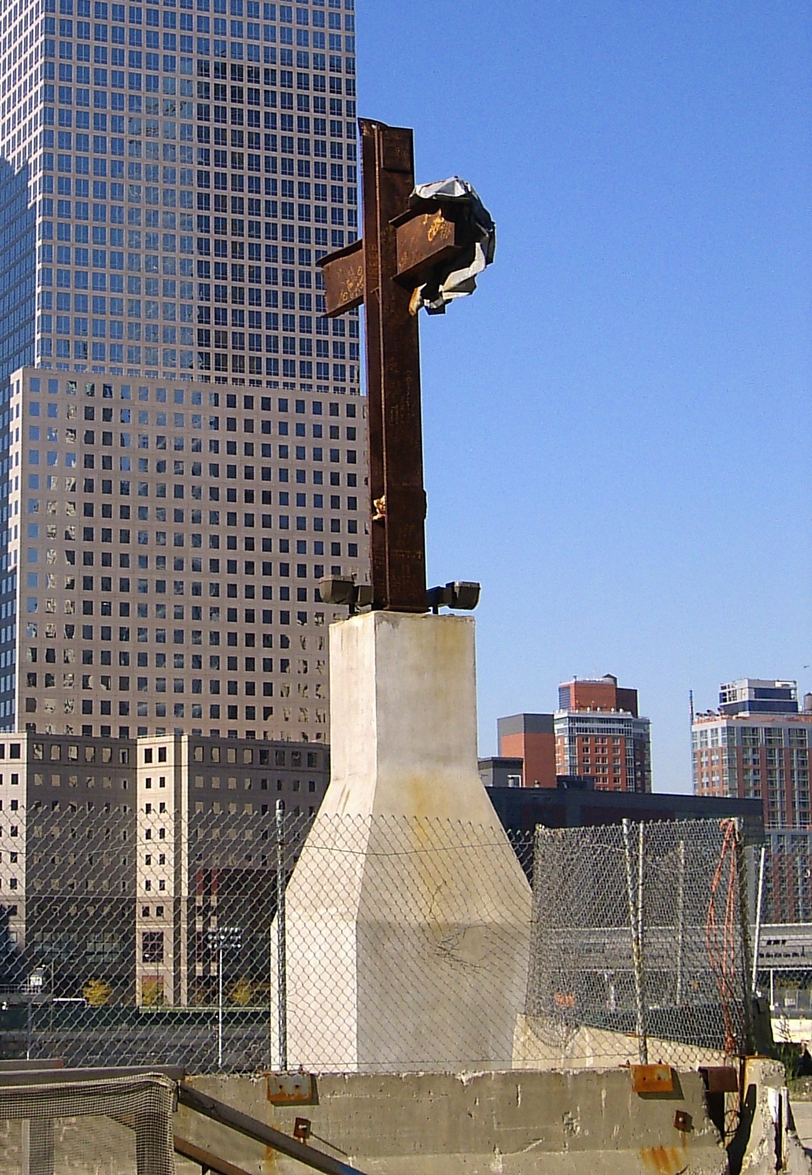 The World Trade Center cross at Ground Zero in New York City, New York, United States of America.